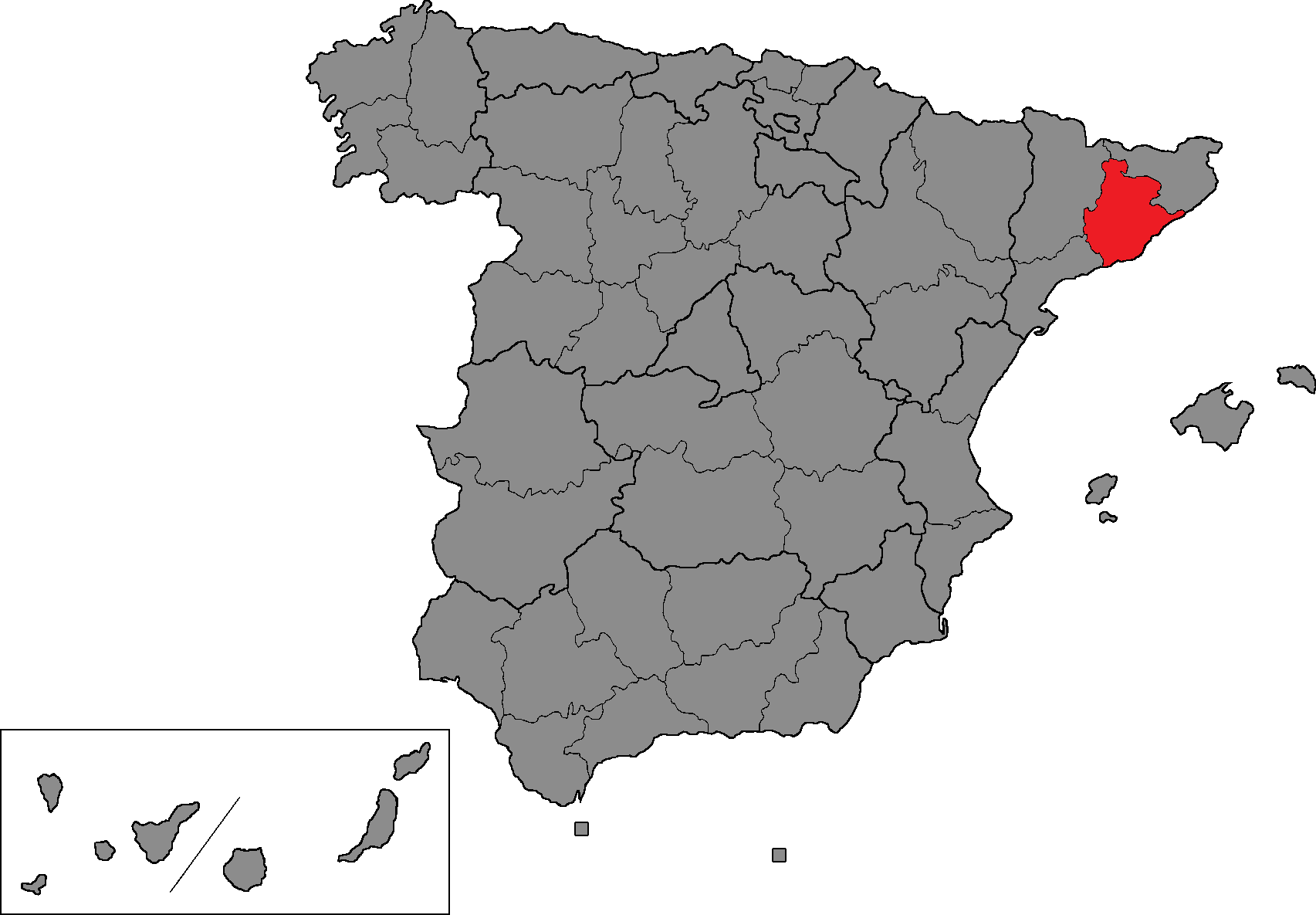 Spanish Congress of Deputies district of Barcelona.